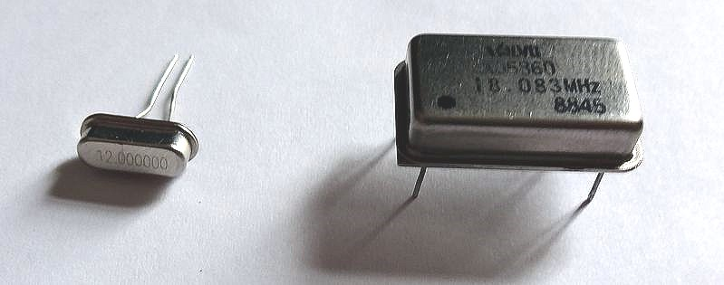 18MHZ 12MHZ Crystal 110